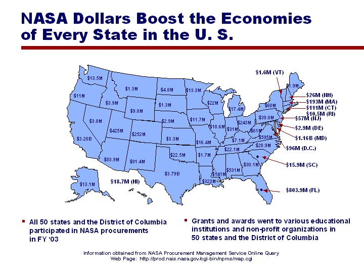 NASA contractor spending by state